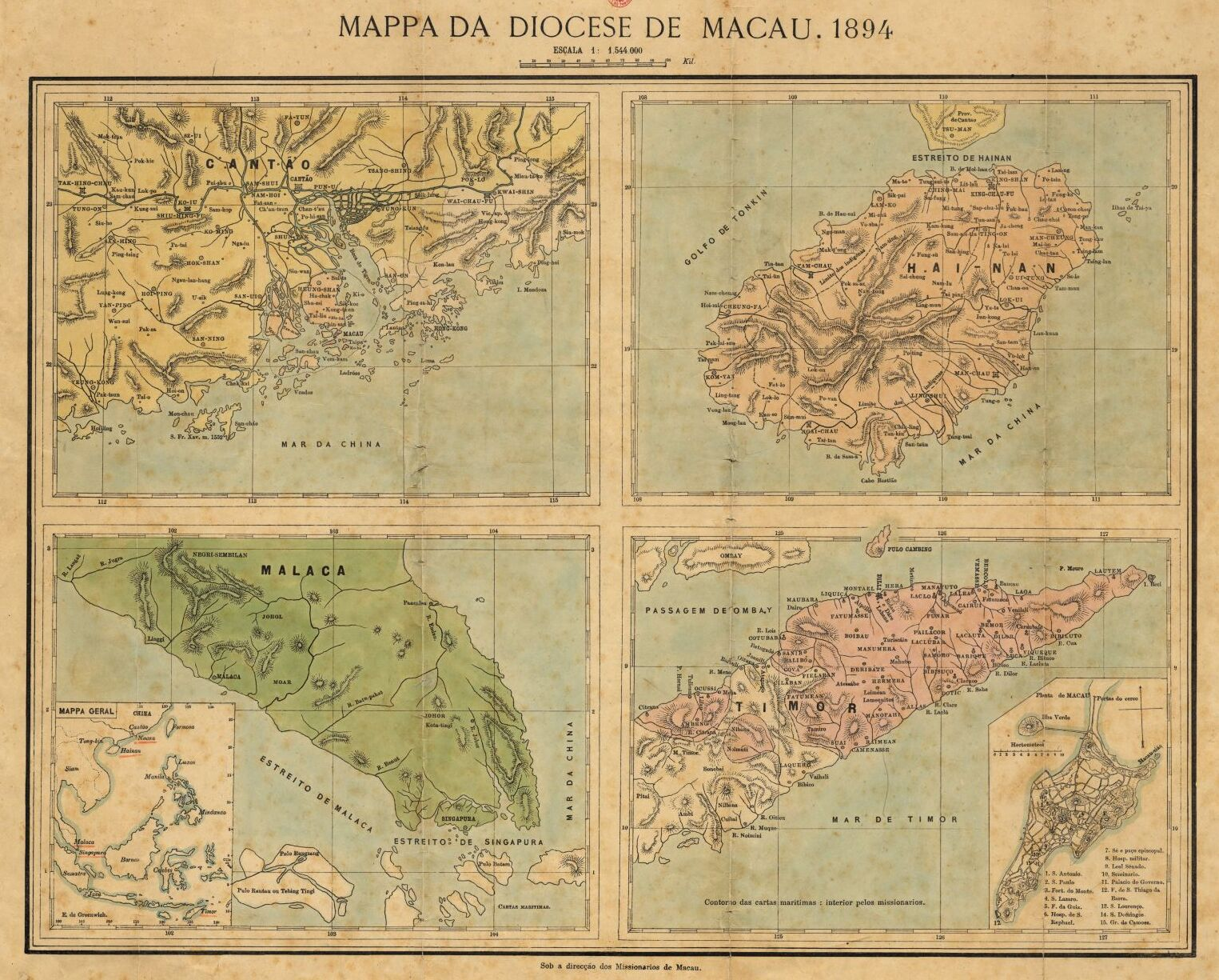 Map of the Diocese of Macau (1894)